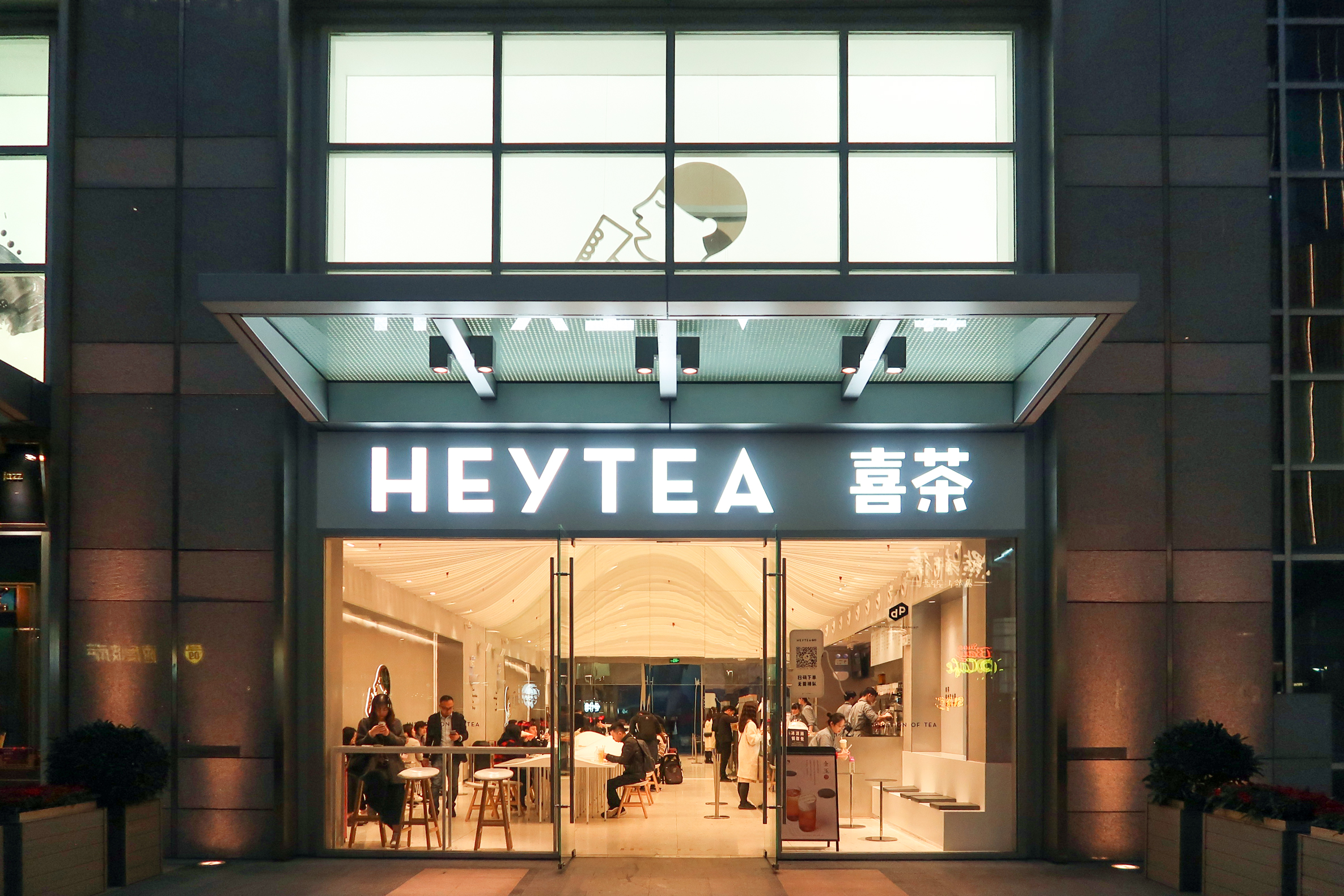 HeyTea in KHC Central Tower (凯华国际中心 "Kaihua International Center"), Guangzhou